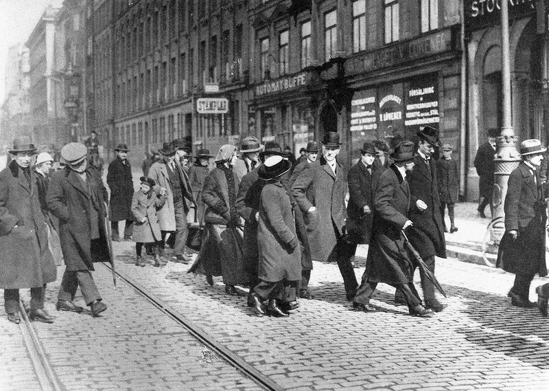 Lenin in Stockholm, outside Stockholms Centralstation with Ture Nerman and Carl Lindhagen